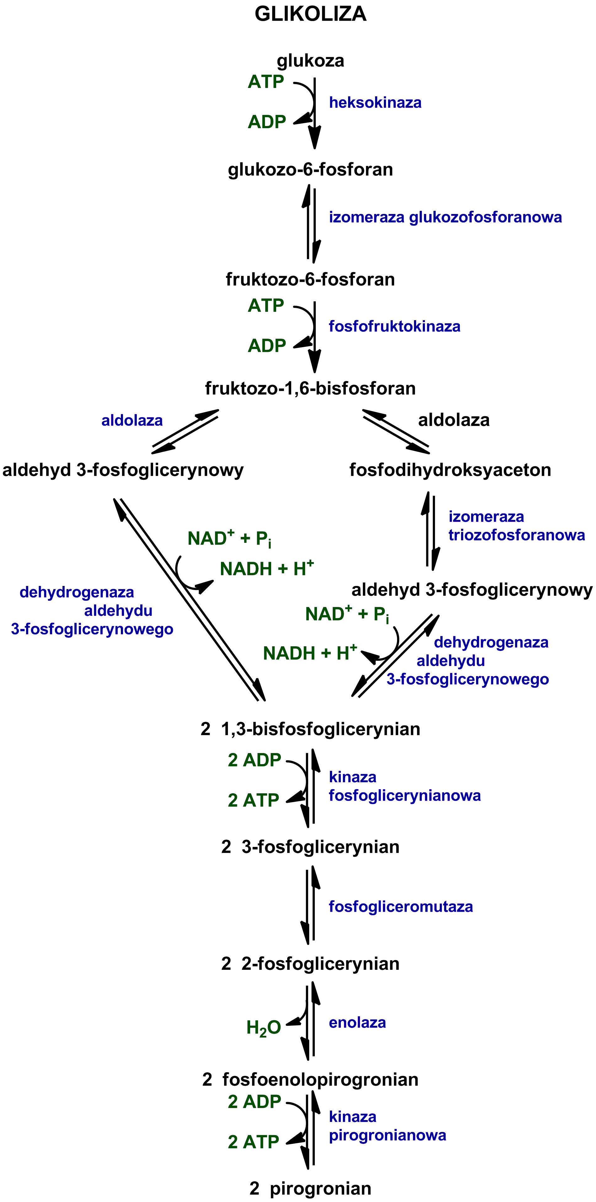 Glycolysis